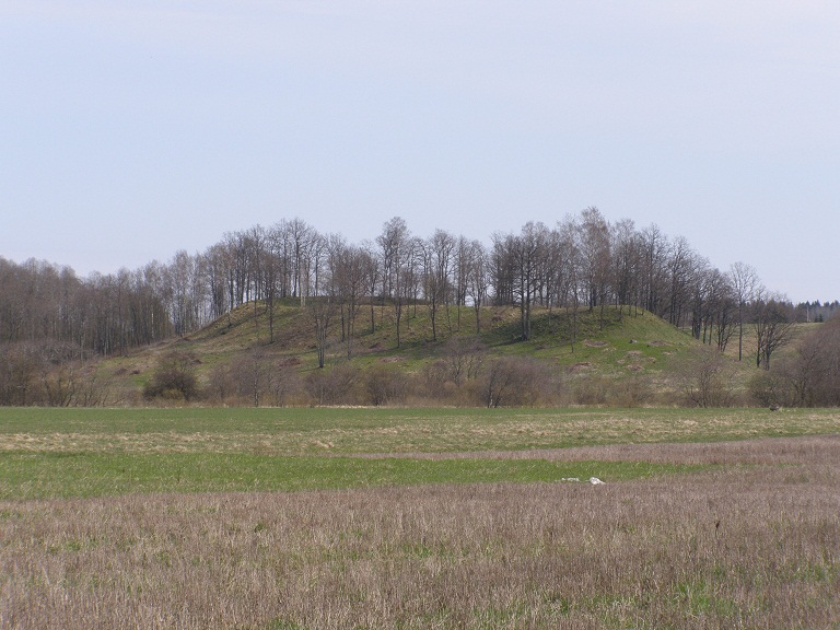 Imbarė hillfort, Kretinga district, Lithuania